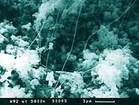 REM picture of a PTFE/Ag gas diffusion electrode